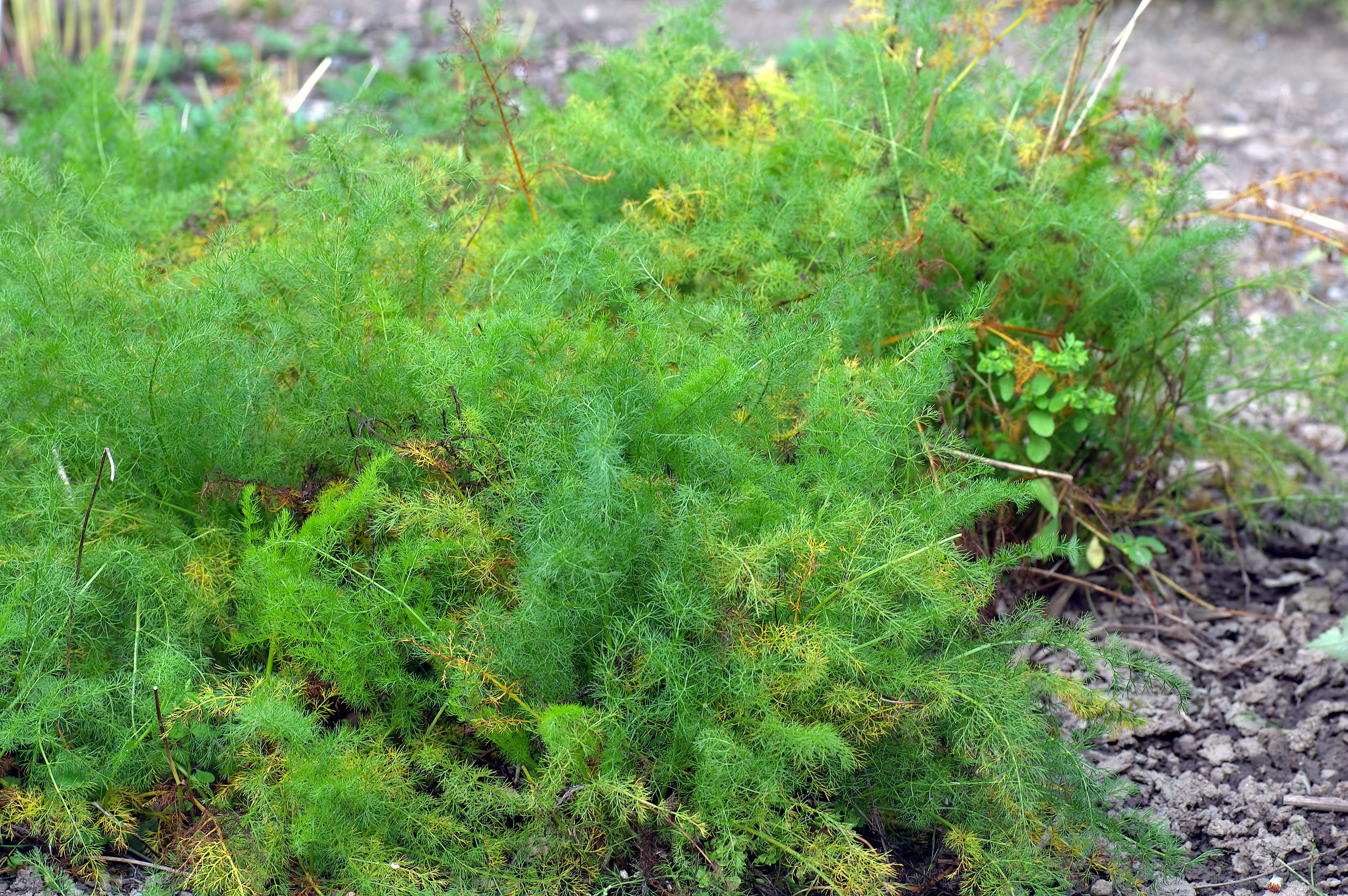 This image shows a Spignel plant (Meum athamanticum).